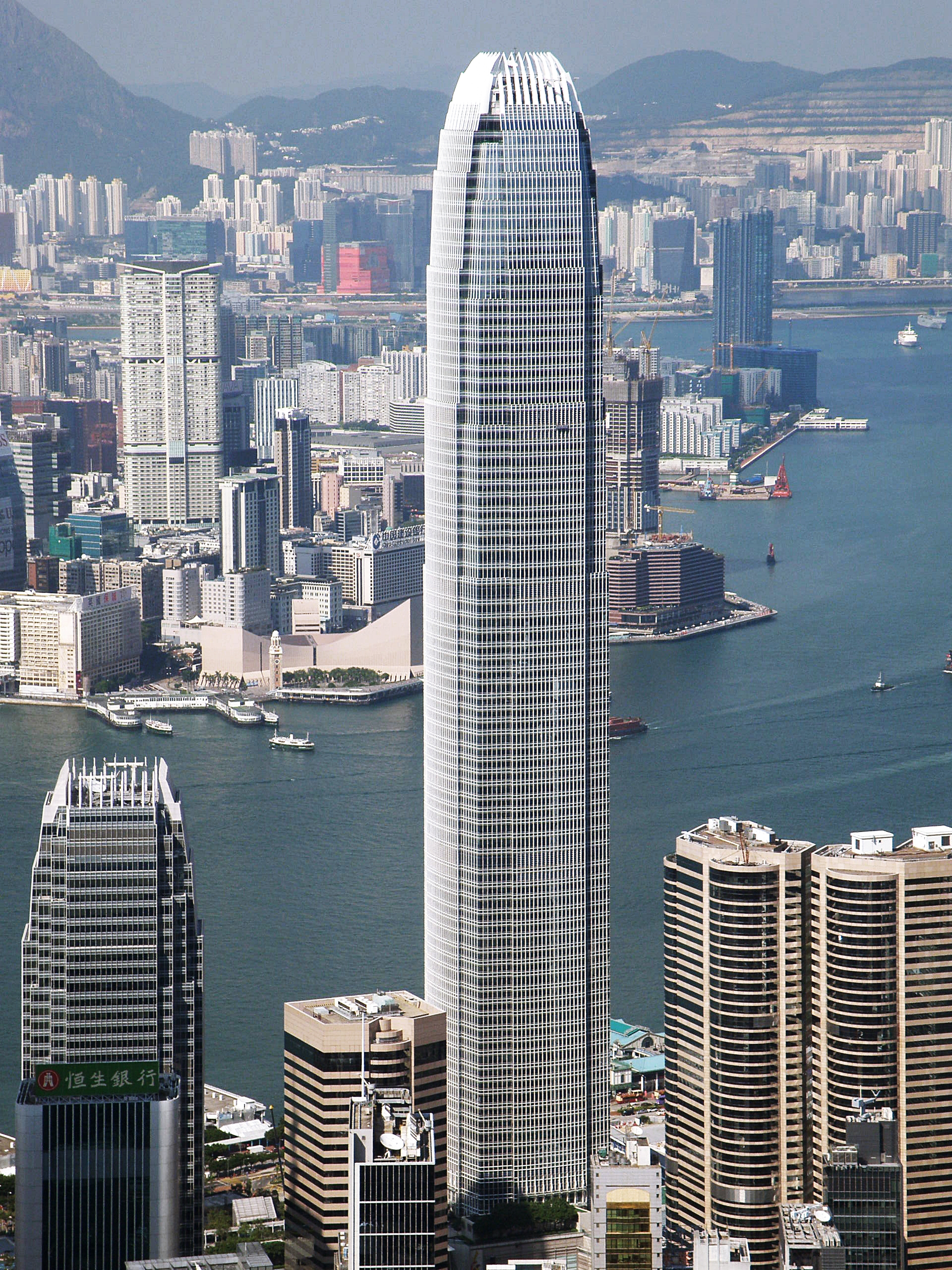 International Finance Centre in Central, Hong Kong.